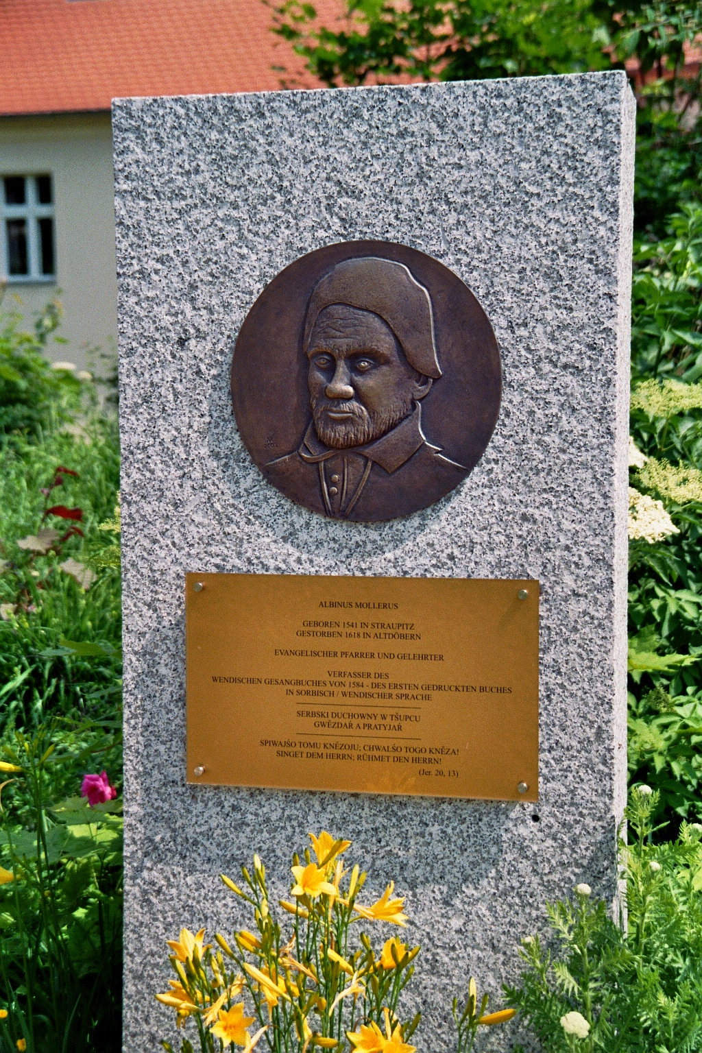 Albin Moller Memorial at the Protestant rectory in Straupitz, Landkreis Dahme-Spreewald, Brandenburg, Germany.